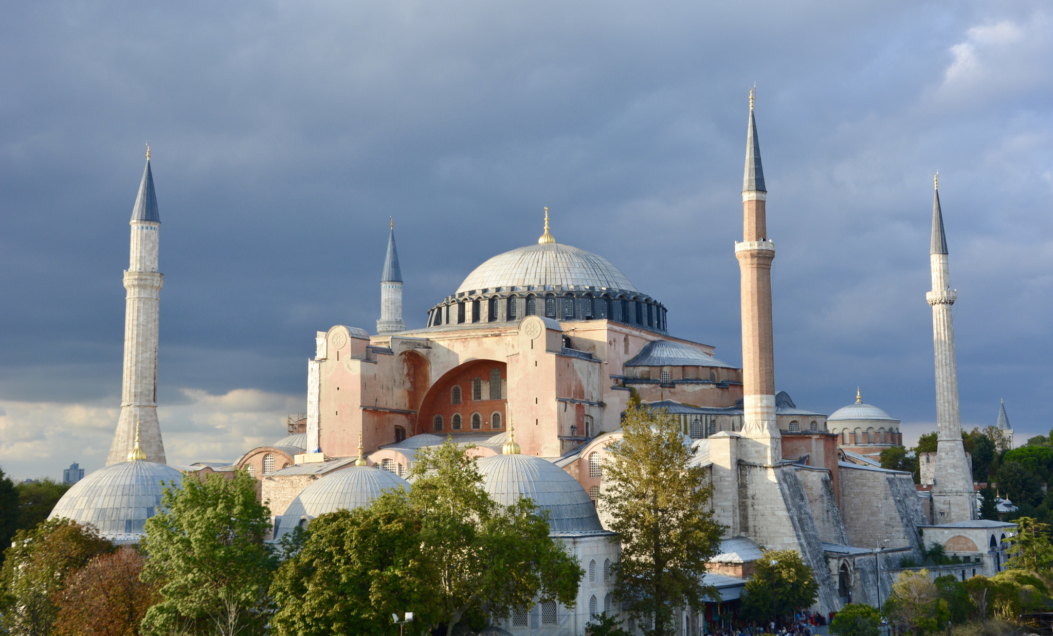 500px provided description: Beautiful, historical and awesome structure in Istanbul, Turkey. Now a museum, one of the things one should not miss while in Istanbul. [#sunset ,#church ,#istanbul ,#turkey ,#architecture ,#cloud ,#museum ,#mosque ,#minaret ,#world heritage ,#byzantine ,#ottoman empire]